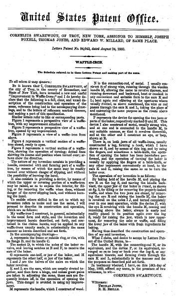 patent